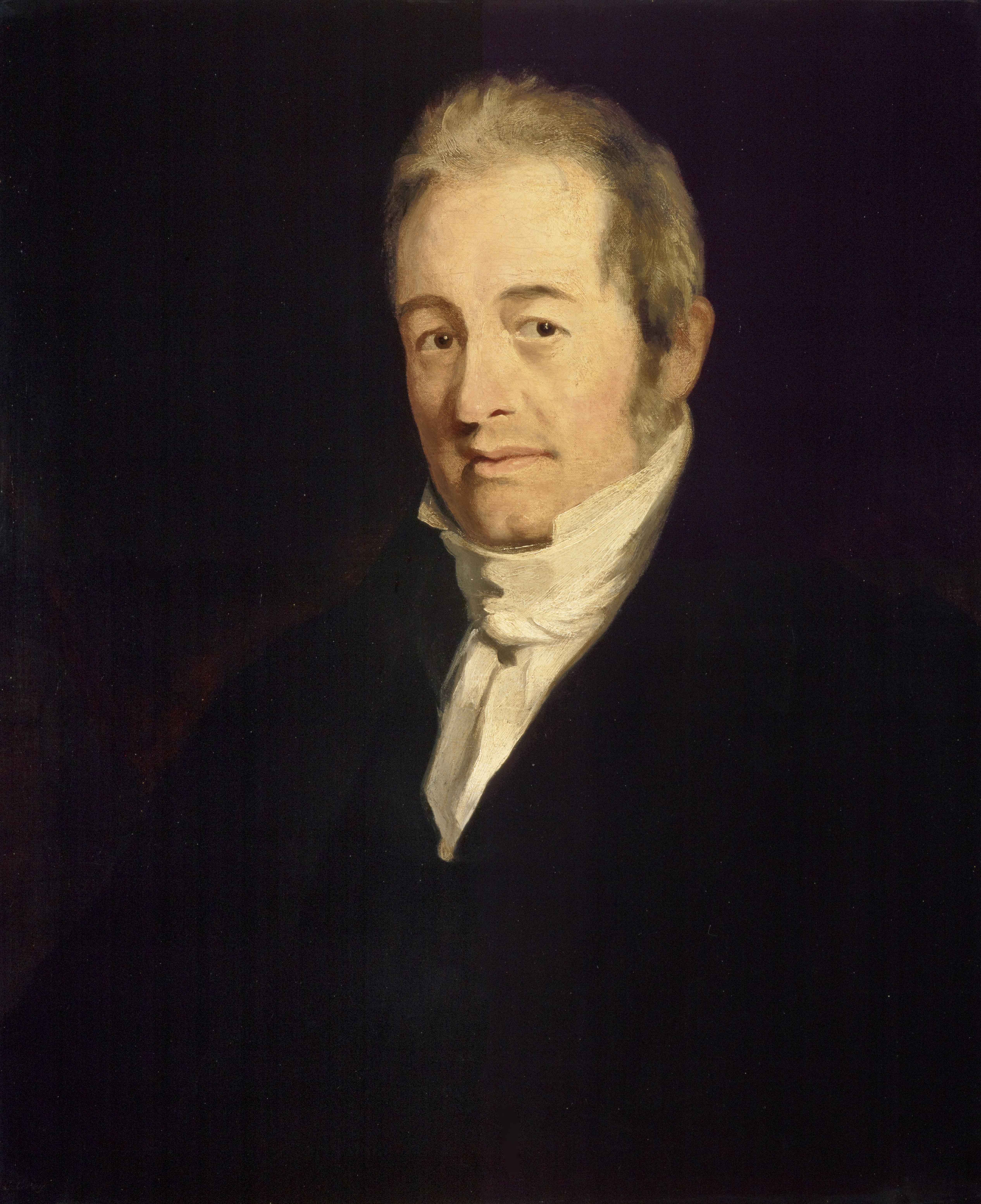 Title: John Galt, 1779 - 1839. Novelist Accession number: PG 1144 Artist:Charles GreyScottish (about 1808 - 1892) Depicted:John Galt Gallery:In Storage Object type:Painting Subject:Scottish literature Materials: Oil on canvas Date created: Dated 1835 Measurements: 74.90 x 62.50 cm (framed: 91.50 x 78.80 x 6.00 cm) Credit line: Purchased 1930 Photographer: Antonia Reeve